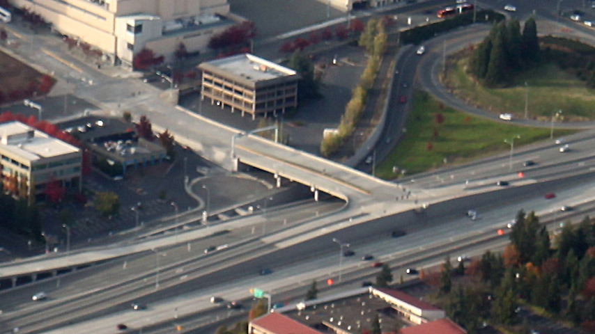 An example of a "Texas T" on-ramp at the intersection of NE 6th St. and Interstate 405, Bellevue, WA, USA. This image was cropped from Aerial Bellevue Washington November 2011.jpg by Jelson25. Since the photograph was taken in 2011, it does not depict the East Link light rail tracks which were subsequently built parallel to 6th St. SuddenFrost (talk) 03:38, 15 November 2018 (UTC)